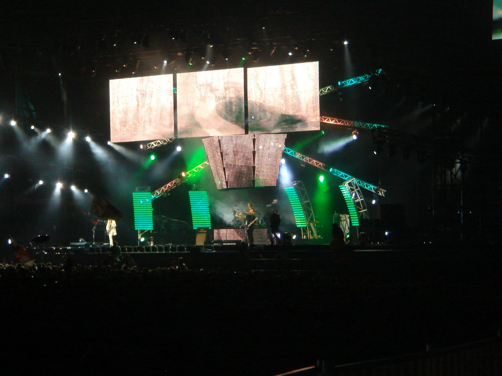 Muse, performing at the Isle of Wight Festival 2007, held at Seaclose Park.